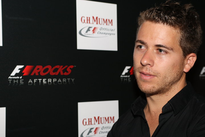 Jonny Dodge F1 Rocks